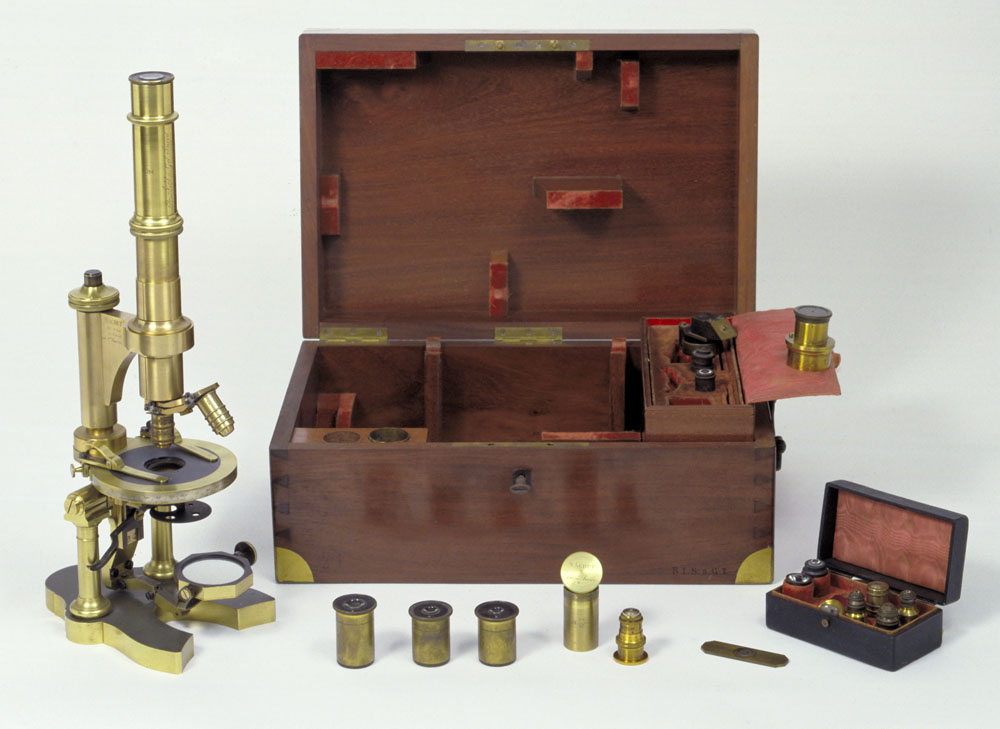 Author Nachet & Fils firmDescription